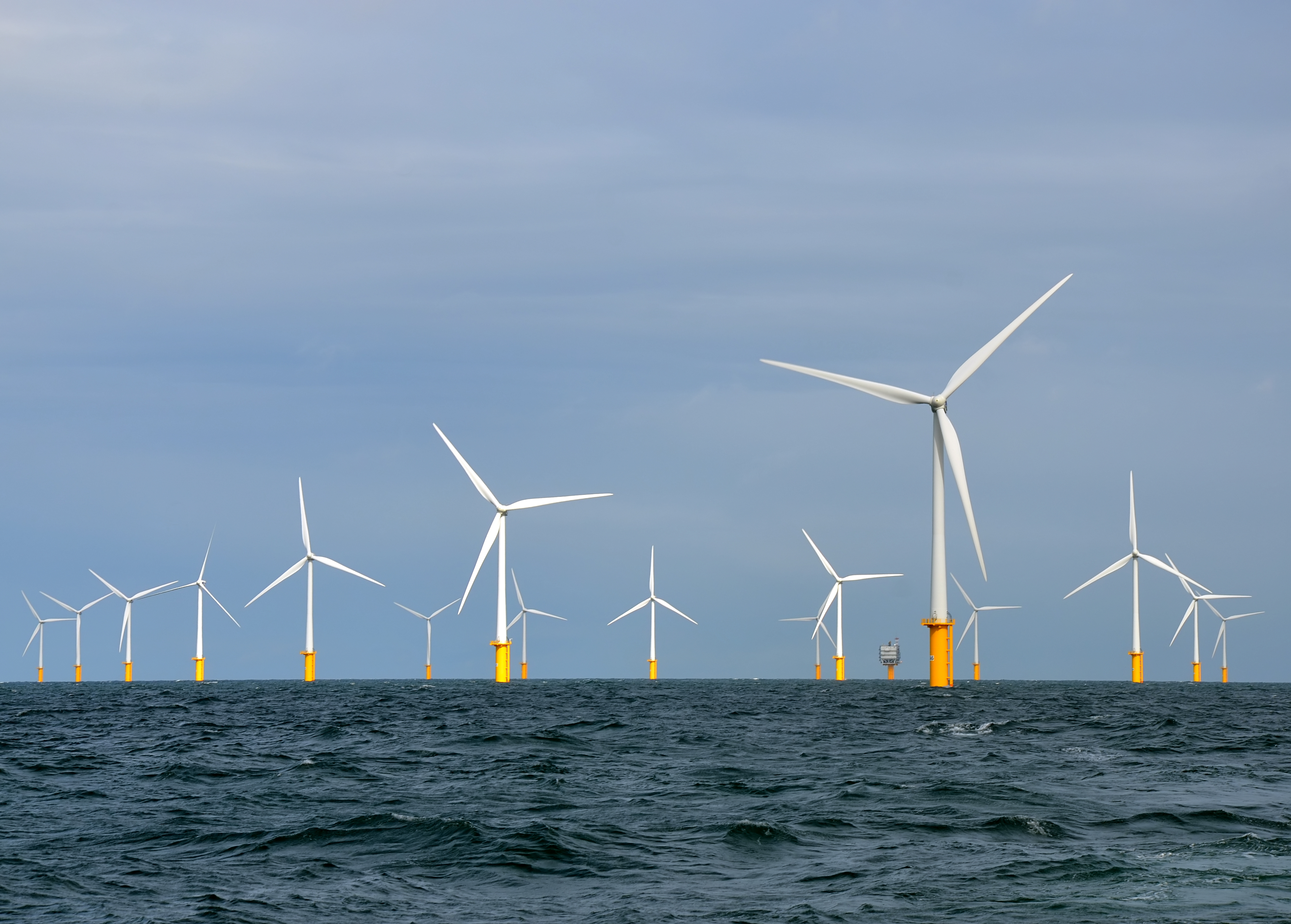 Belwind wind farm on the Bligh Bank, on the Belgian part of the North Sea.